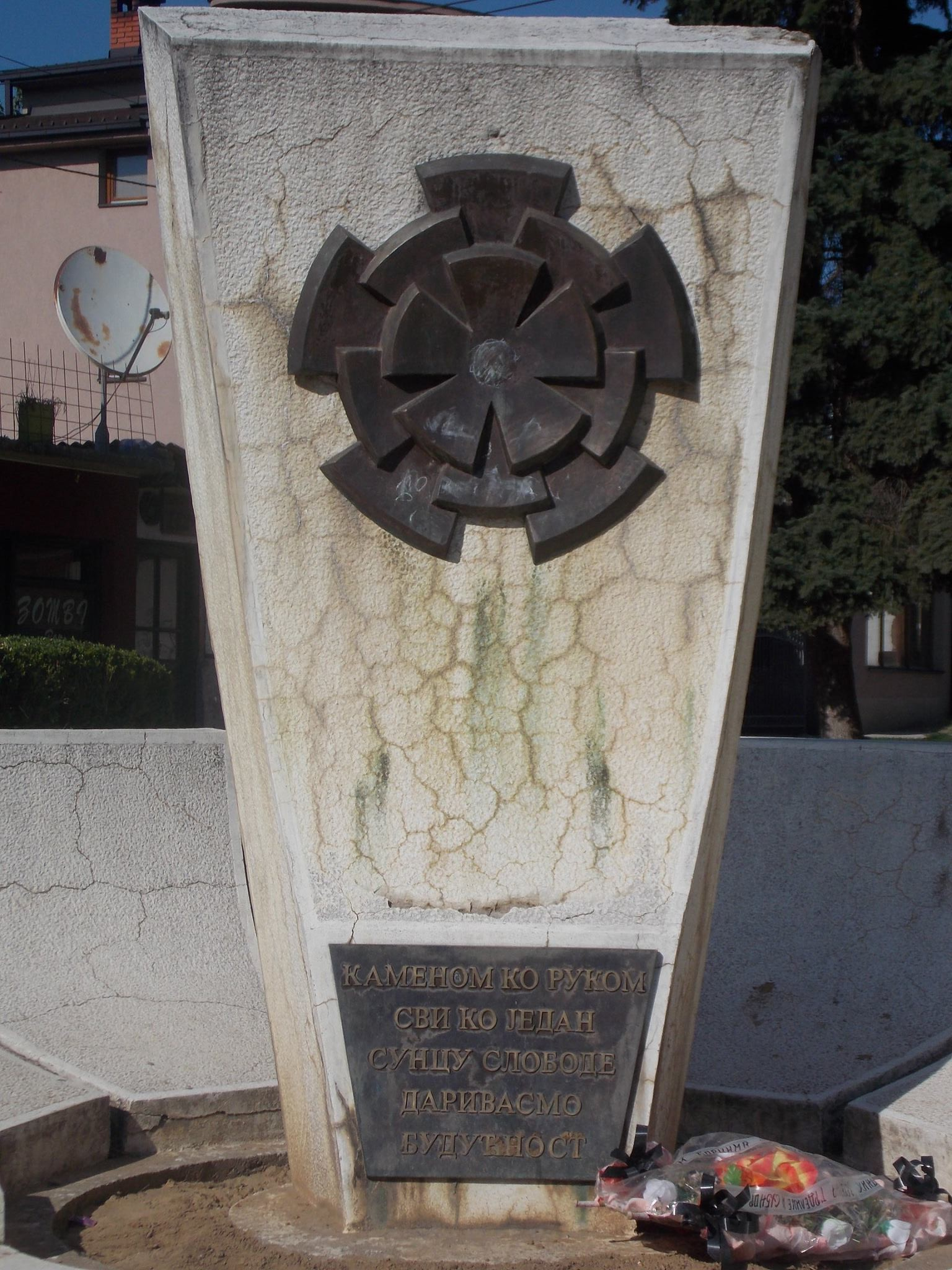 Споменик у Грделици